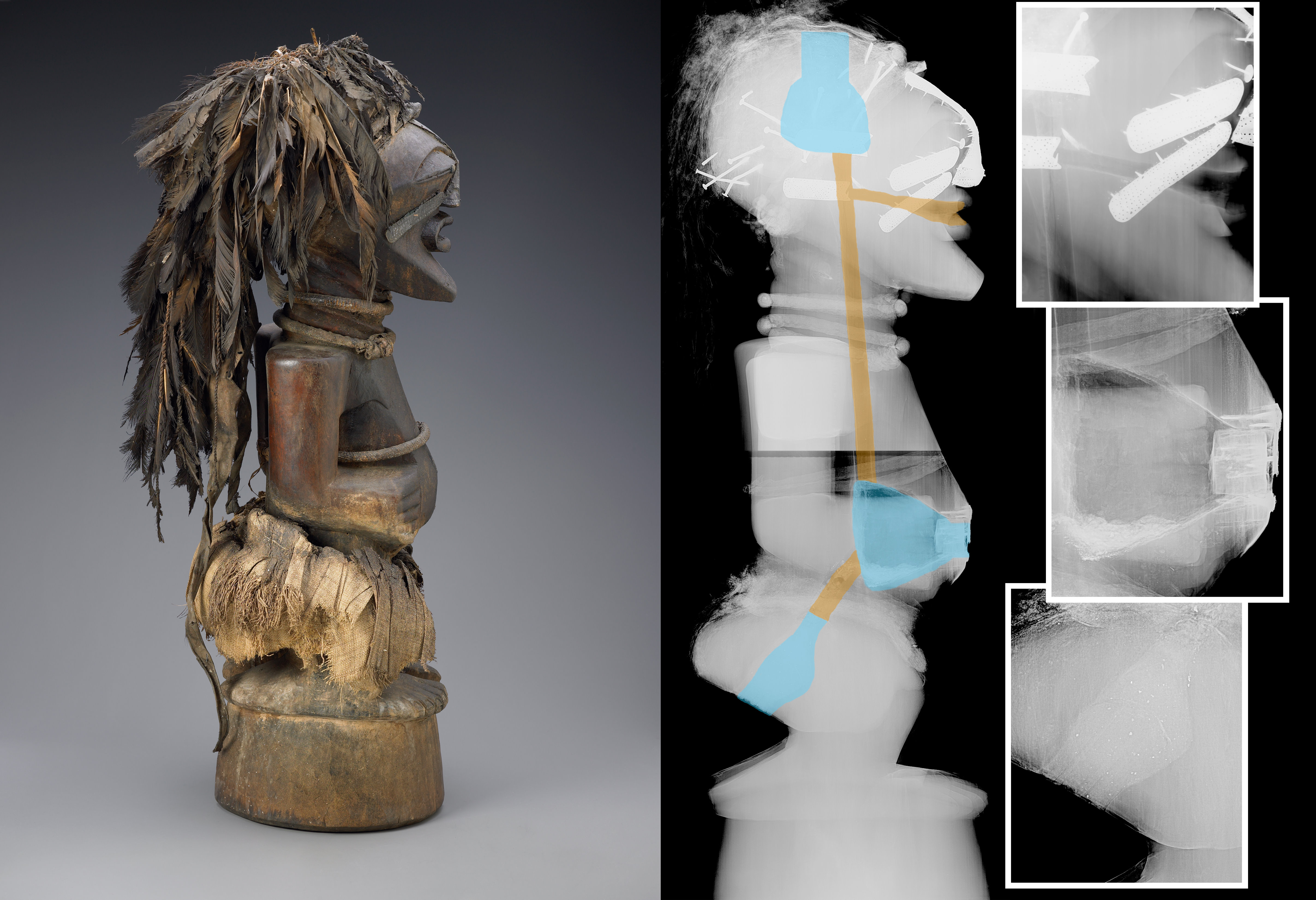 This image of an African Songye Power Figure in the collection of the Indianapolis Museum of Art (2005.21) is a combination of a digital photograph and a digital radiograph, with three enlarged details. The radiograph allows for a more complete understanding of the interior features of this figure. Areas highlighted in blue indicate the presence of pockets of sacred substances while the brown highlighted lines illustrate channels that connect these centers. This image was first published in the Summer 2010 issue of African Arts (Vol.43, No.2, Pages 38-51). All images were produced at and by the Indianapolis museum of art.